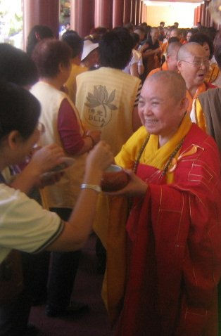 Venerable Tzu Chuang, founder of Hsi Lai Temple, in an alms begging round during Sangha Day, 2006